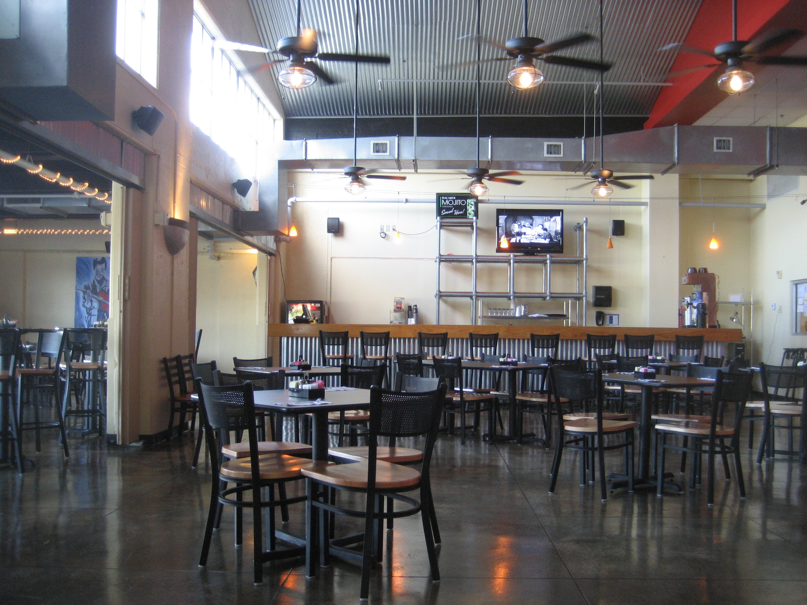 New Orleans: Bar, not yet open, in new restaurant in the old American Can Factory building, Mid-City